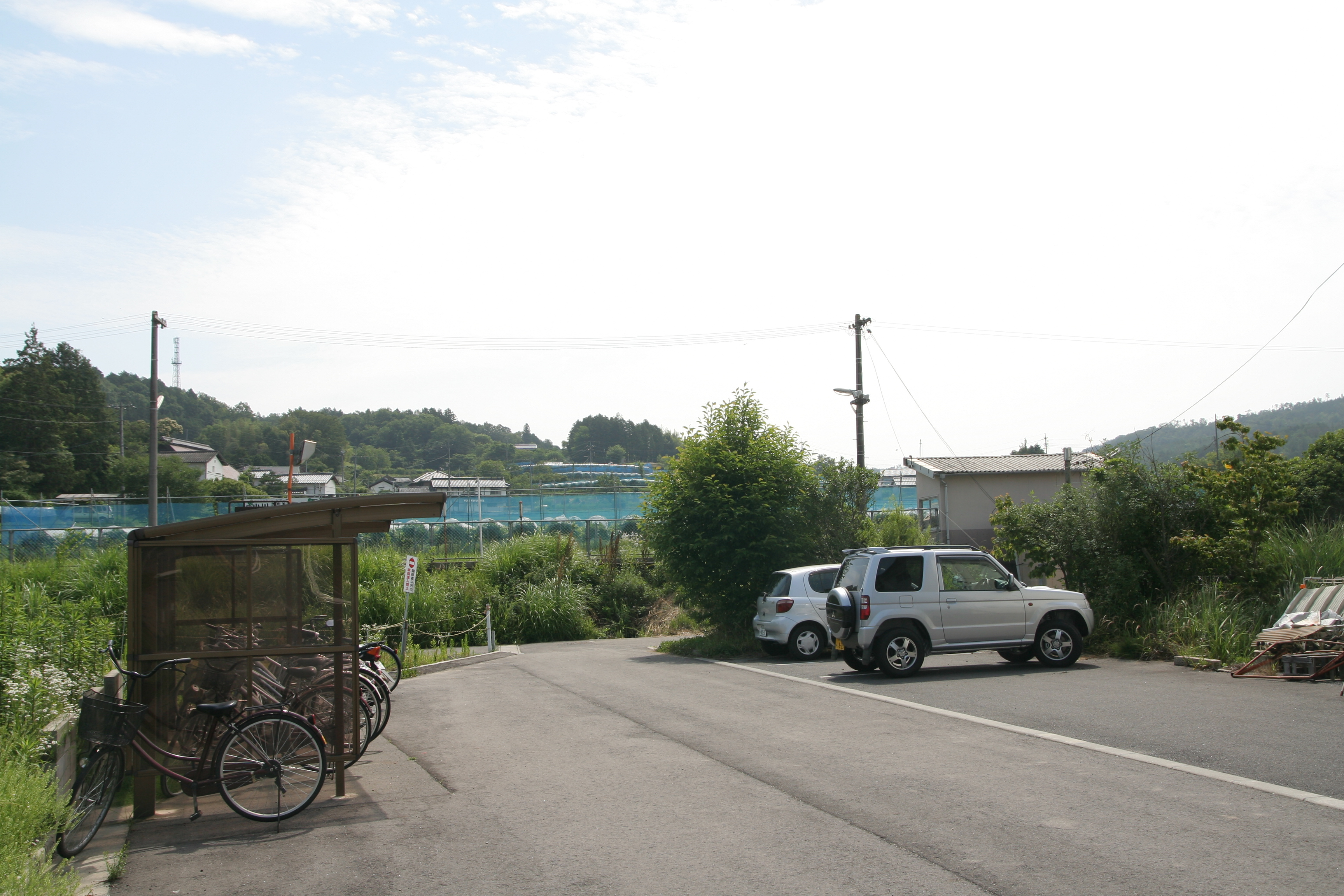 West Japan Railway Company Tsuyama Line Obara station in Misaki-town Kume-gun, Okayama pref. Japan